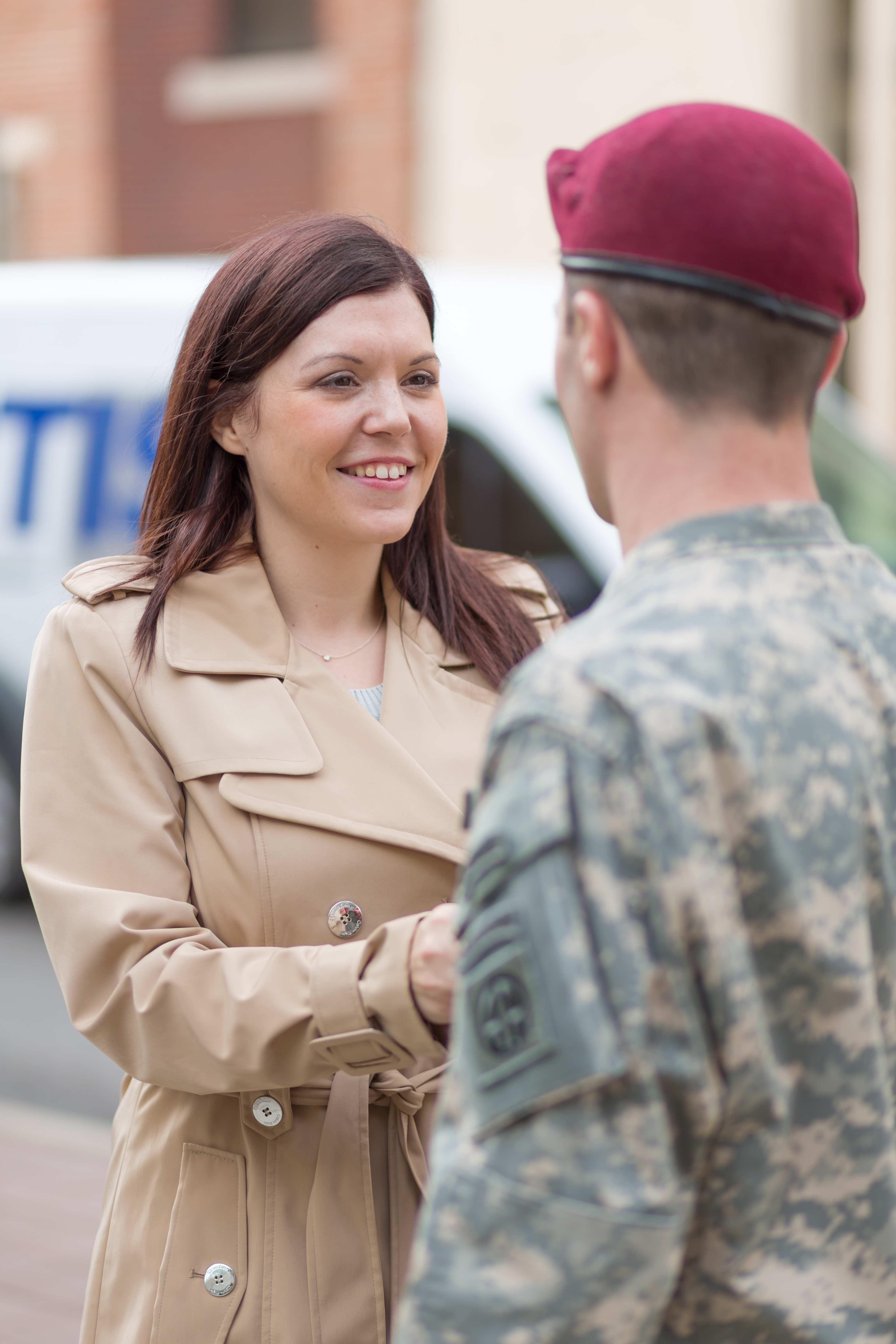 Pamela Sossi with Michael Norris, of the 82nd Airborne Division